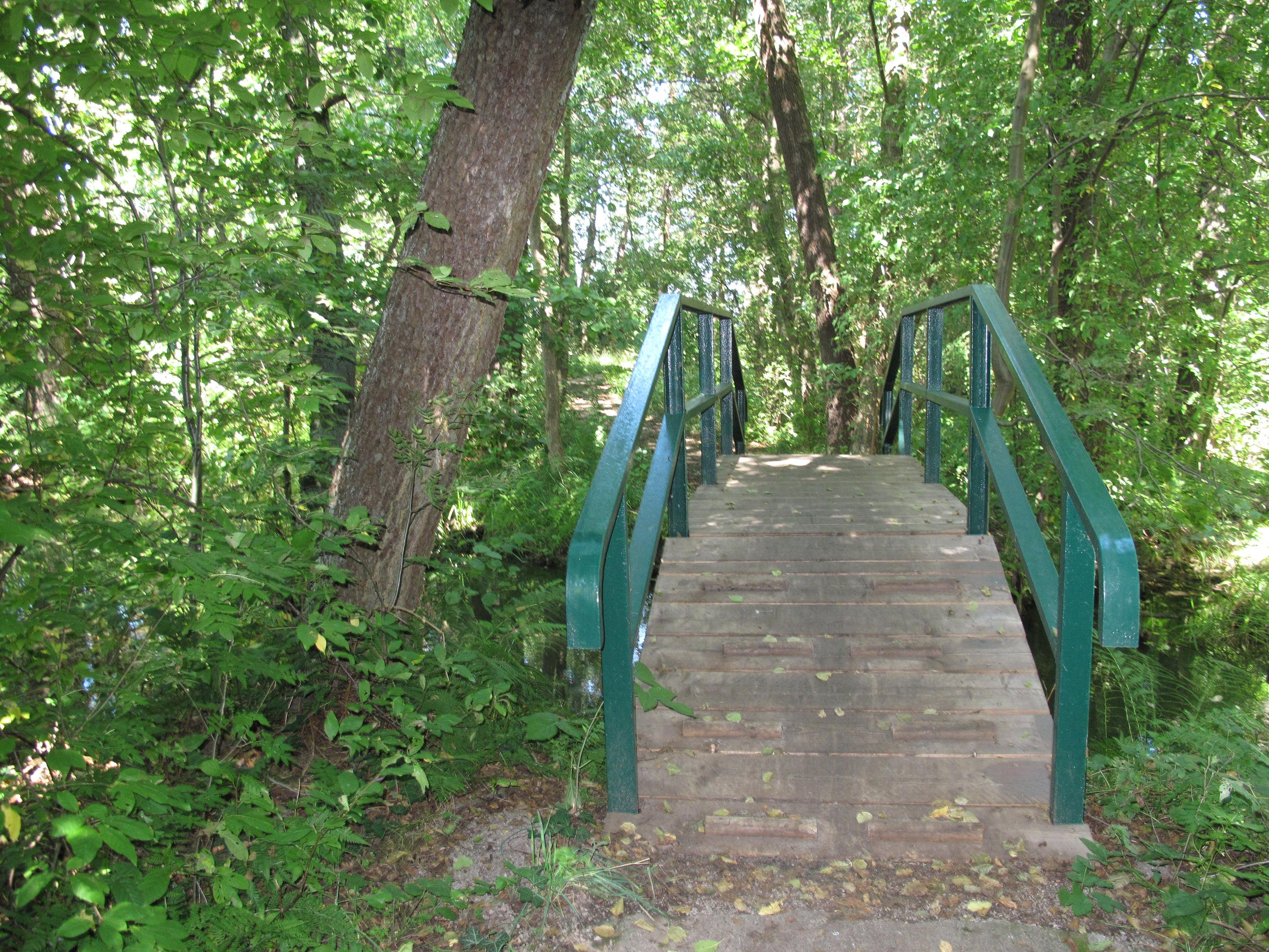 Foot bridge over the drain ditch from the Mouschenzsee (lake) to the Großer Müllroser See (german for: Great Müllroses lake) in Müllrose, a town in the District Oder-Spree, Brandenburg, Germany.